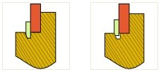 Cross section showing the 15 degree bevel of the retaining ring at minimum and maximum insertion points.